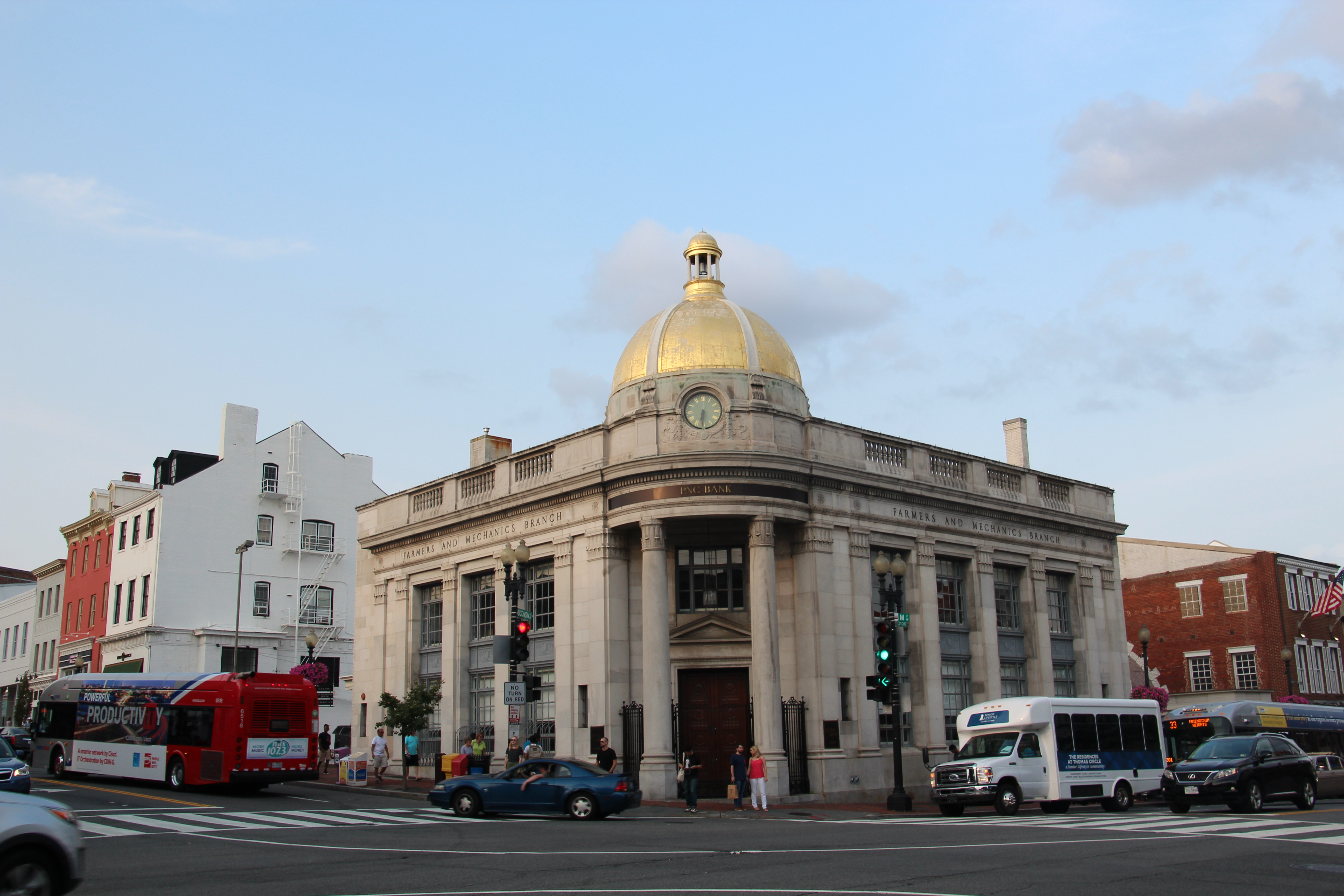 Front view of PNC Bank, Farmers and Mechanics Branch. 1201 Wisconsin Avenue, N.W.